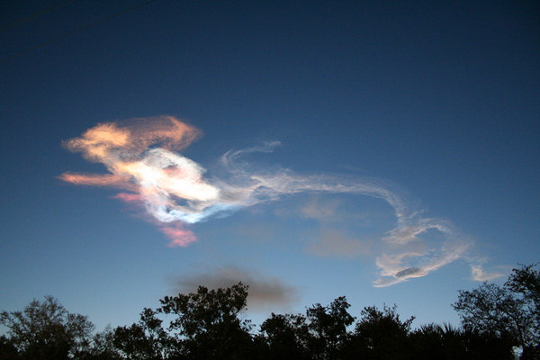 afterglow of STS-131 launch exhaust trail